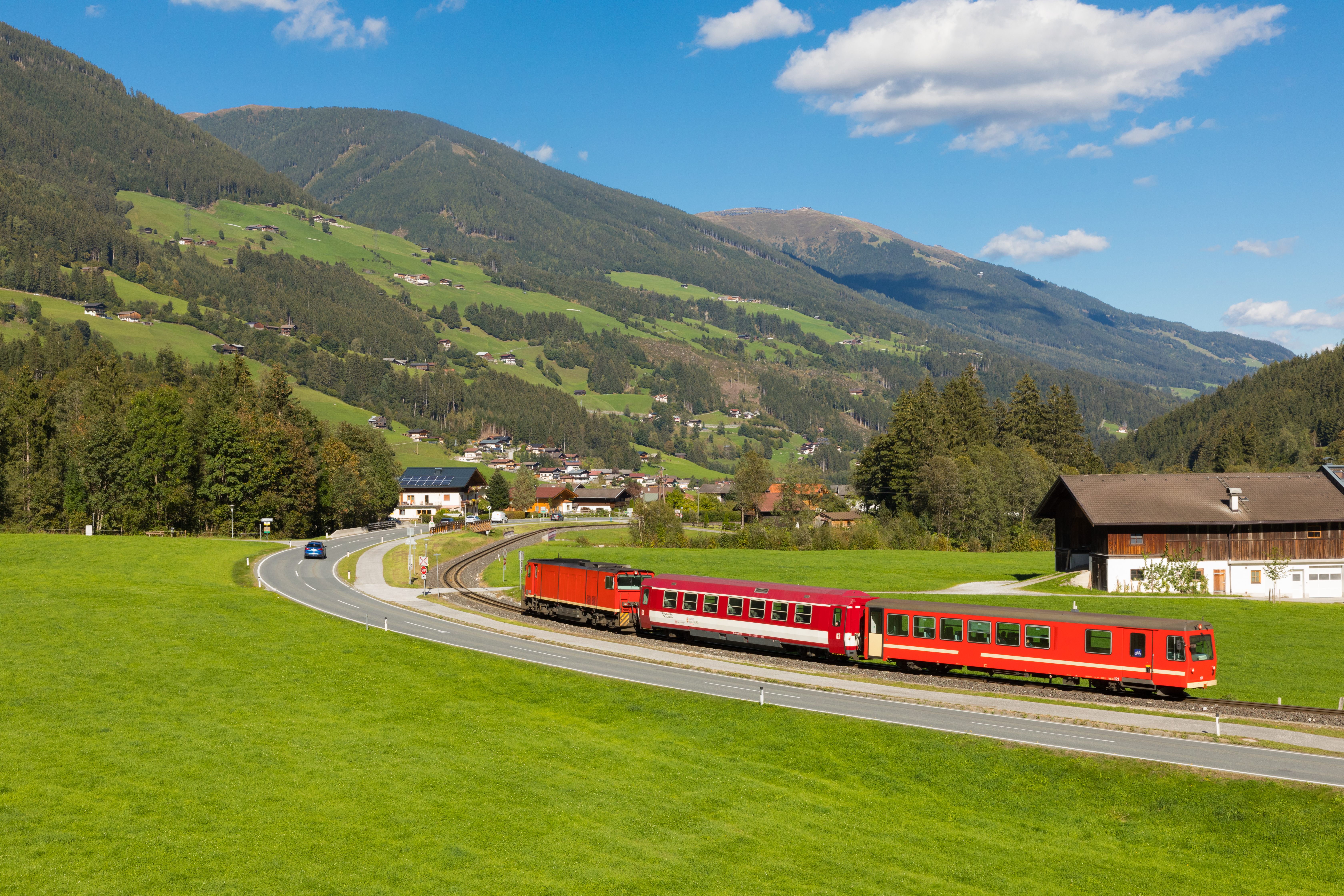 A train of Pinzgauer Lokalbahn near the station of Krimml.